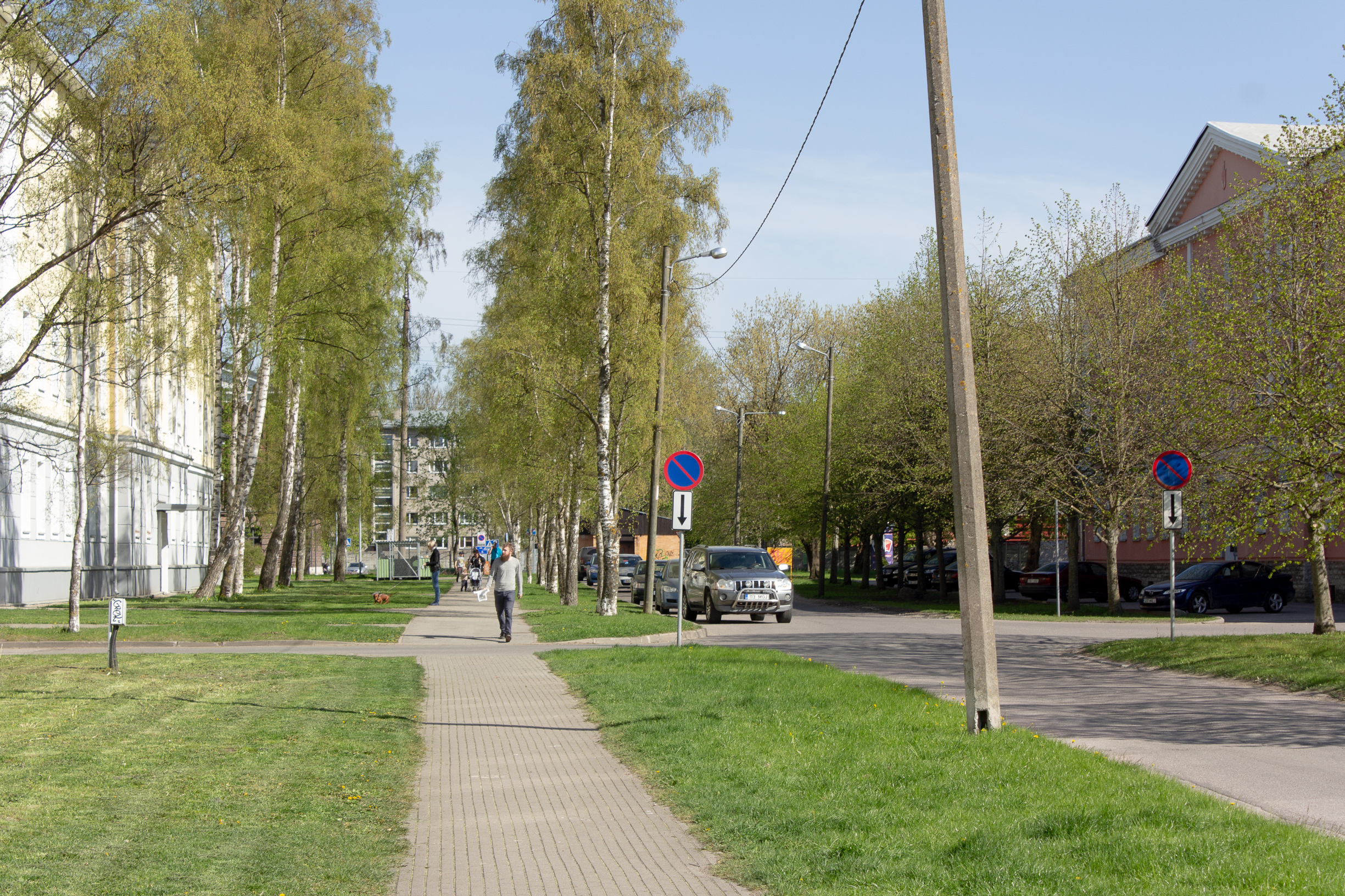 Karjamaa Street